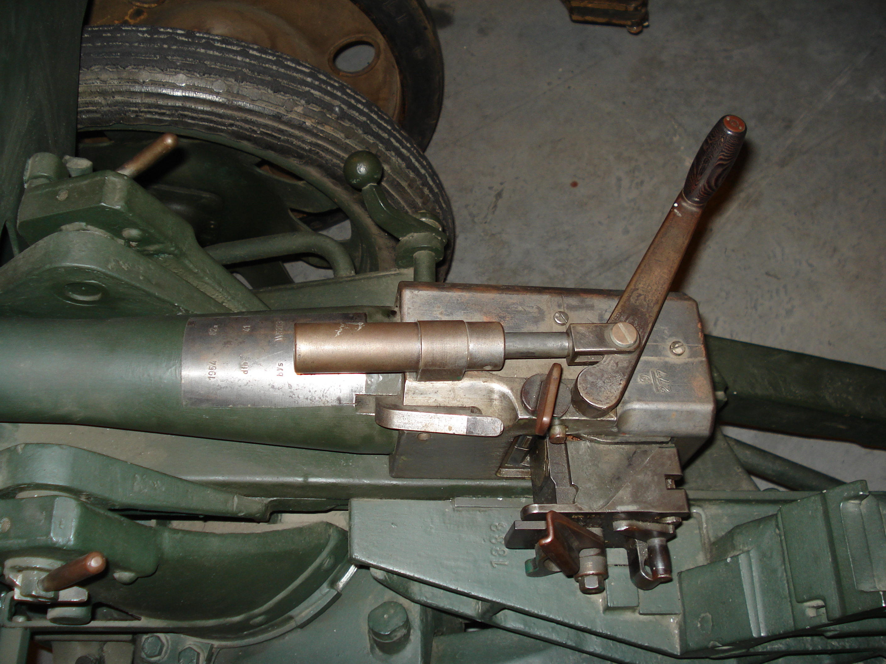 Breech of 2.8 cm sPzB 41 anti-tank gun at the Canadian War Museum in Ottawa.